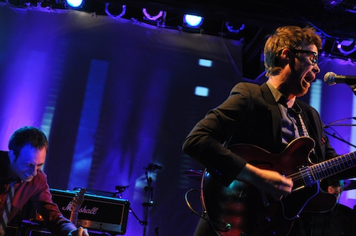 The 88 - Live in Concert (photo by Scott Dudelson)